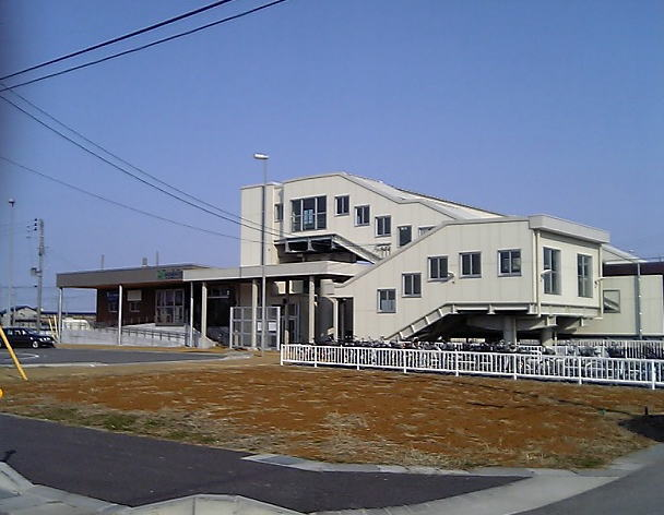 Uchino-Nishigaoka Station in Nishi-ku, Niigata city, Niigata Prefecture, Japan